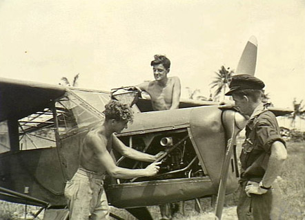 AWM Caption: BALIKPAPAN, BORNEO. 1945-07-07. THE AUSTER AIRCRAFT OF NO. 16 AIR OBSERVATION POST RAAF HAVE BEEN DOING A GOOD JOB OF ARTILLERY SPOTTING, WORKING IN CO-OPERATION WITH THE ARMY. 134511 LEADING AIRCRAFTMAN I. D. PRIOR, LEETON, NSW AND 119426 CORPORAL L. SEGRAVE, BALLARAT, VIC, MAKE FINAL ADJUSTMENTS AND CHECK FUEL, WHILE FLIGHT LIEUTENANT S. MCINTYRE, LISMORE, NSW, LOOKS ON AS HE WAITS TO TAKE OFF.